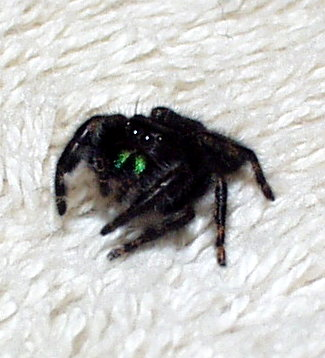 Photograph of a mature Phidippus audax (jumping spider)